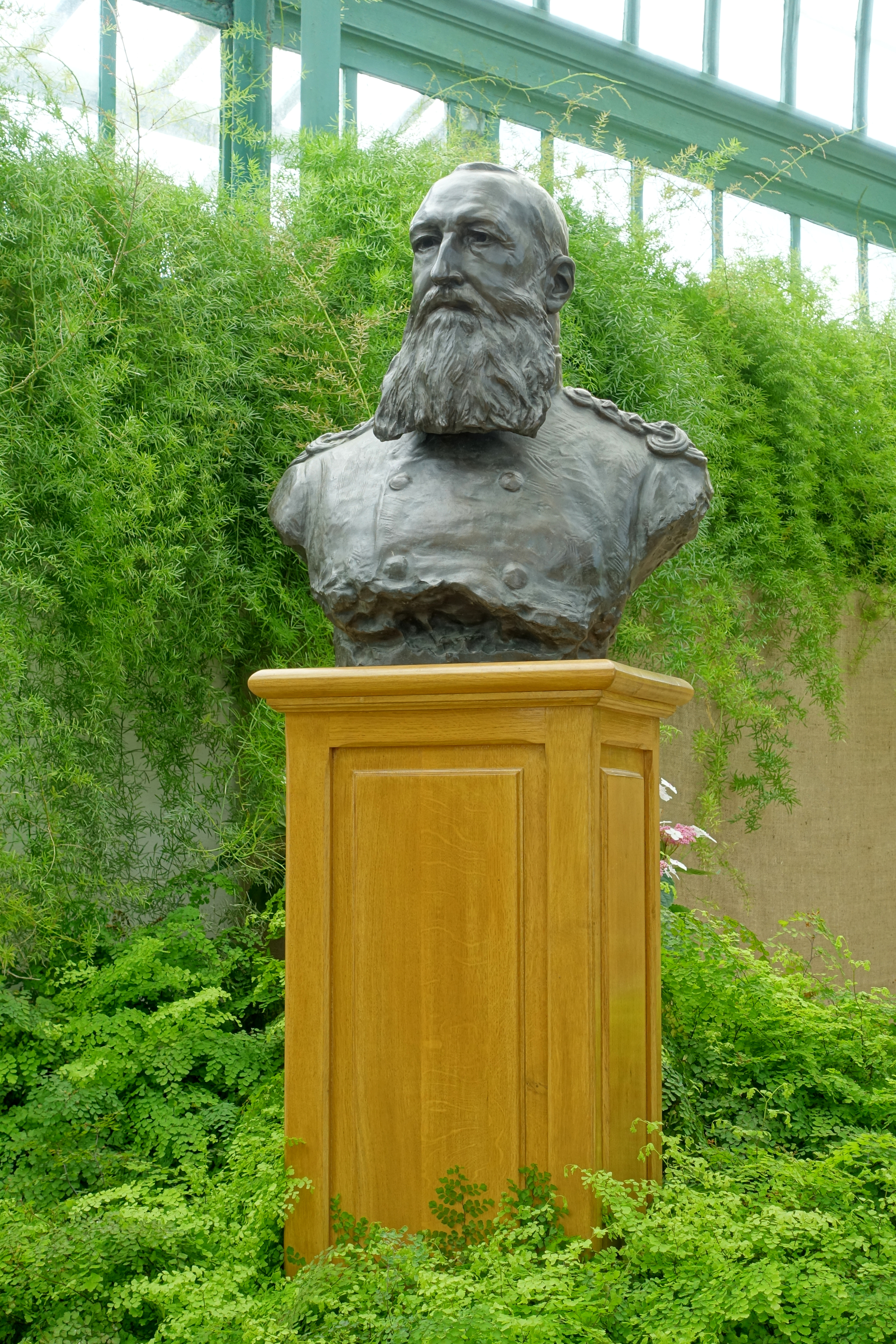 Léopold II by Thomas Vinçotte, in the Laeken Royal Greenhouses - Royal Castle of Laeken - Brussels, Belgium.